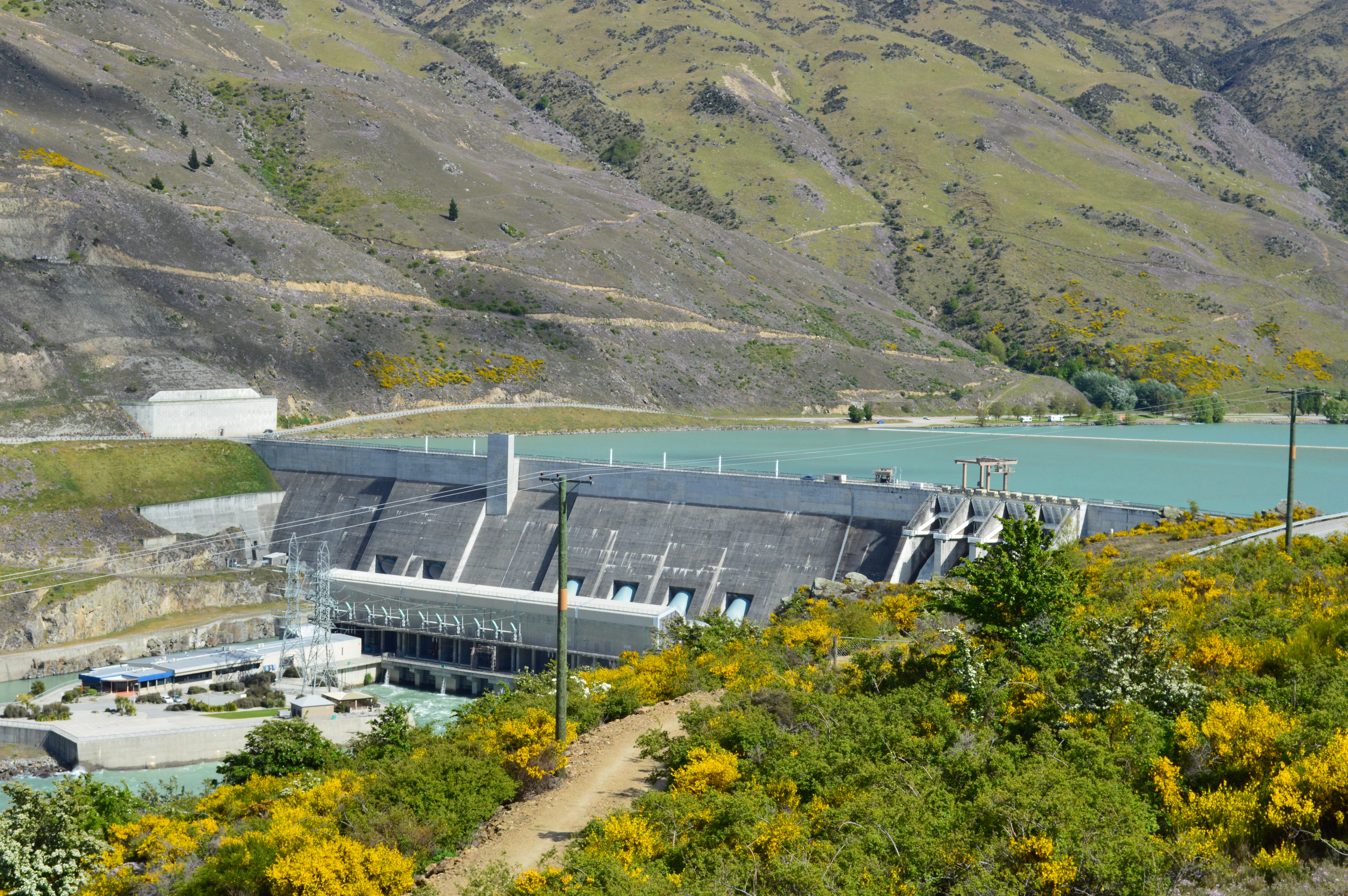 Clyde Dam near Clyde, New Zealand